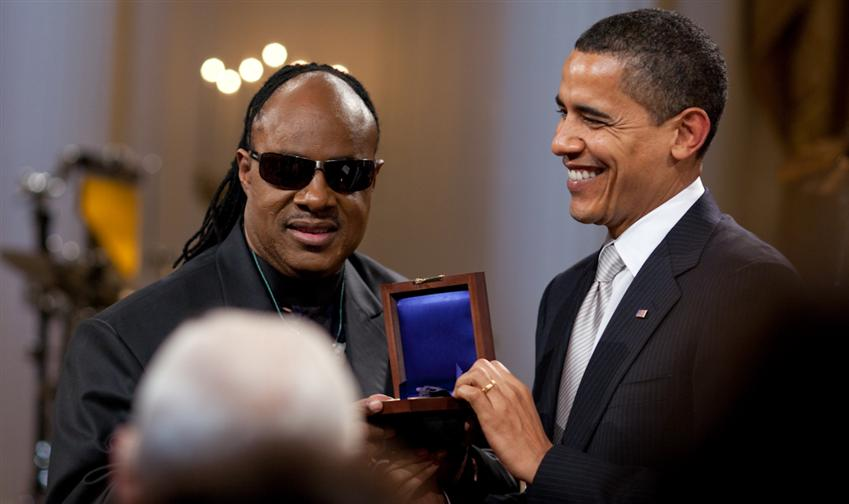 President Barack Obama presents Stevie Wonder with the Gershwin Award for Lifetime Achievement in a celebration in the East Room of the White House.